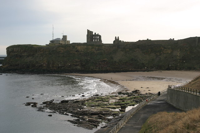 King Edward's Bay Tynemouth from Sharpness Point. On the horizon is Tynemouth Priory and Castle, and the now redundant Coastguard Station.